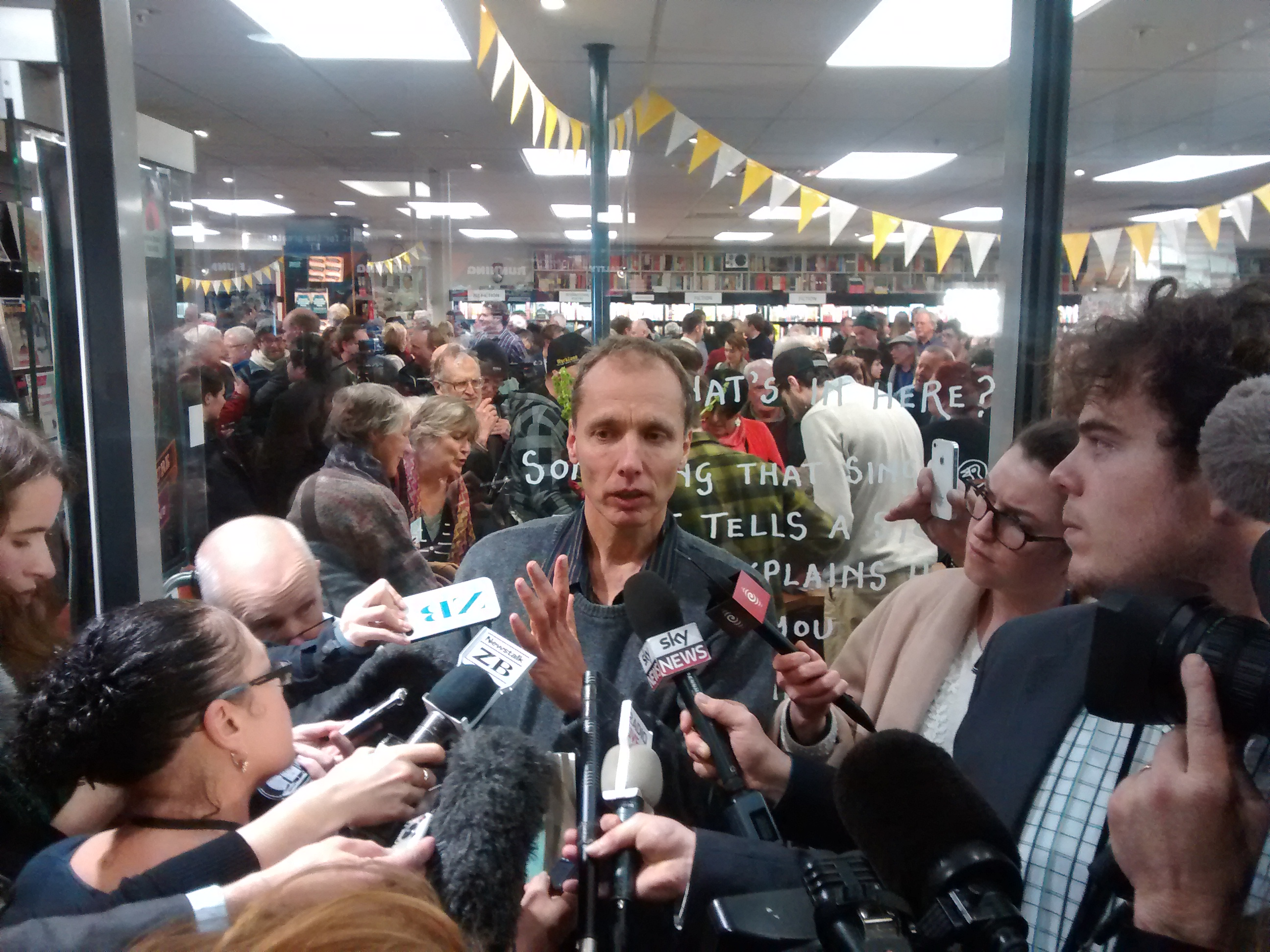 Nicky Hager speaking to journalists outside the book lanch of Dirty Politics at Unity Books in Wellington in August 2014. (The view on the other side of the glass is the crowd inside the book store.)